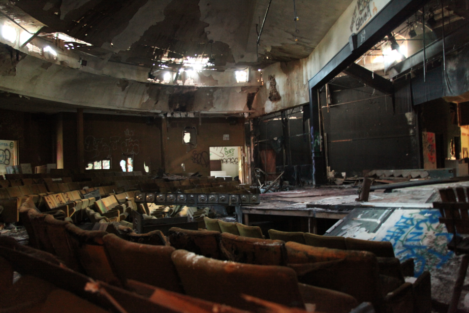 Polka Dot Playhouse, Pleasure Beach Bridgeport, CT - A community theatre which relocated to downtown Bridgeport, CT in 1996